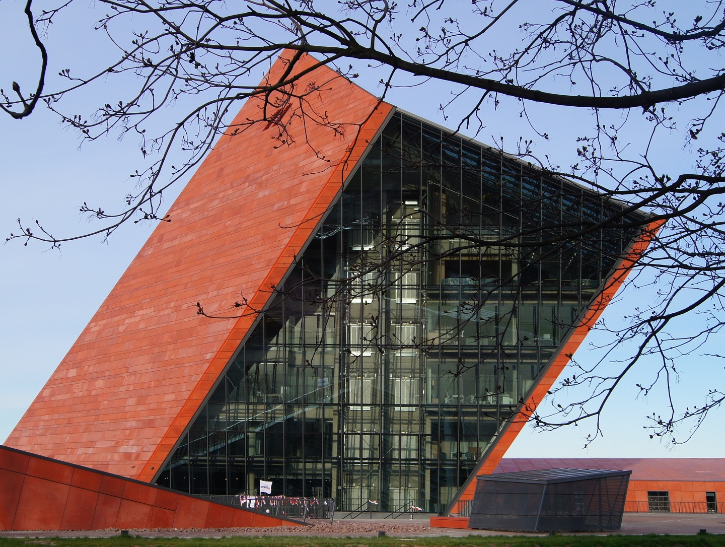 Museum of the Second World War in Gdańsk.